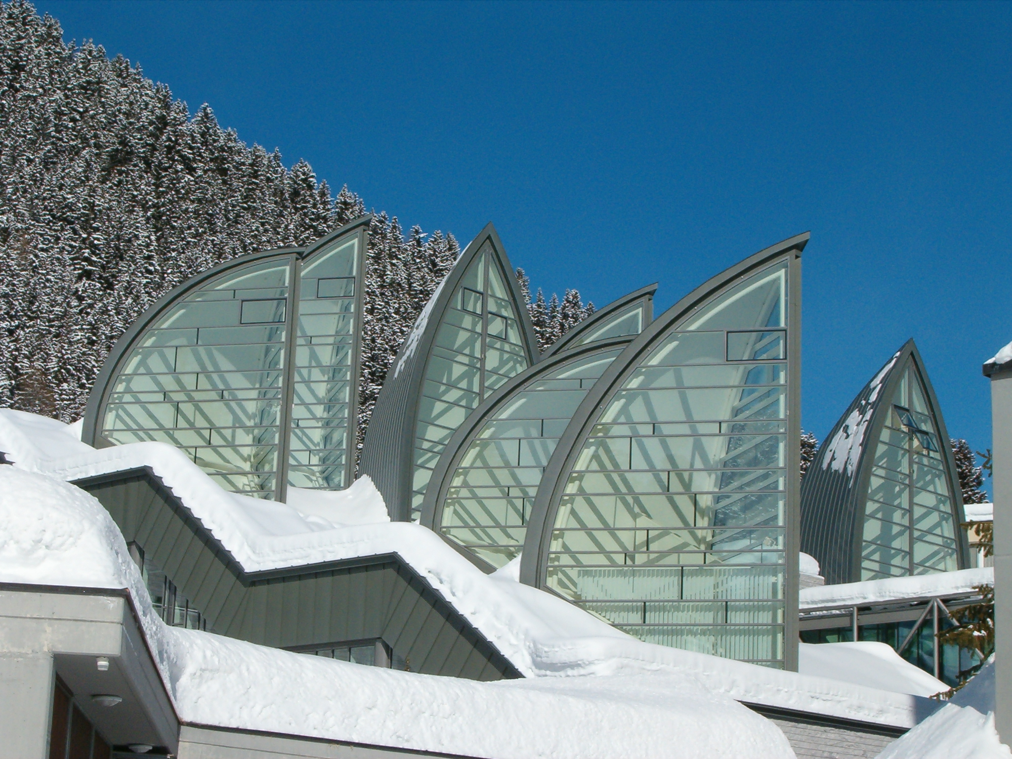 Spa Botta Bergoase, Tschuggen Grand Hotel, Arosa/Switzerland